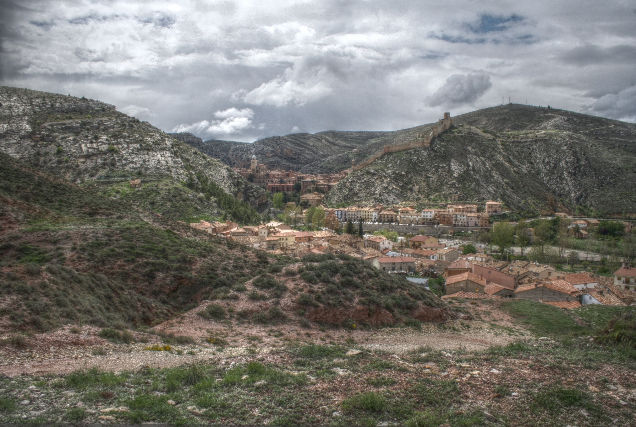 Qtpfsgui 1.9.3 tonemapping parameters: Operator: Mantiuk Parameters: Contrast Mapping factor: 0.1 Saturation Factor: 1.333 Detail Factor: 1 PreGamma: 1